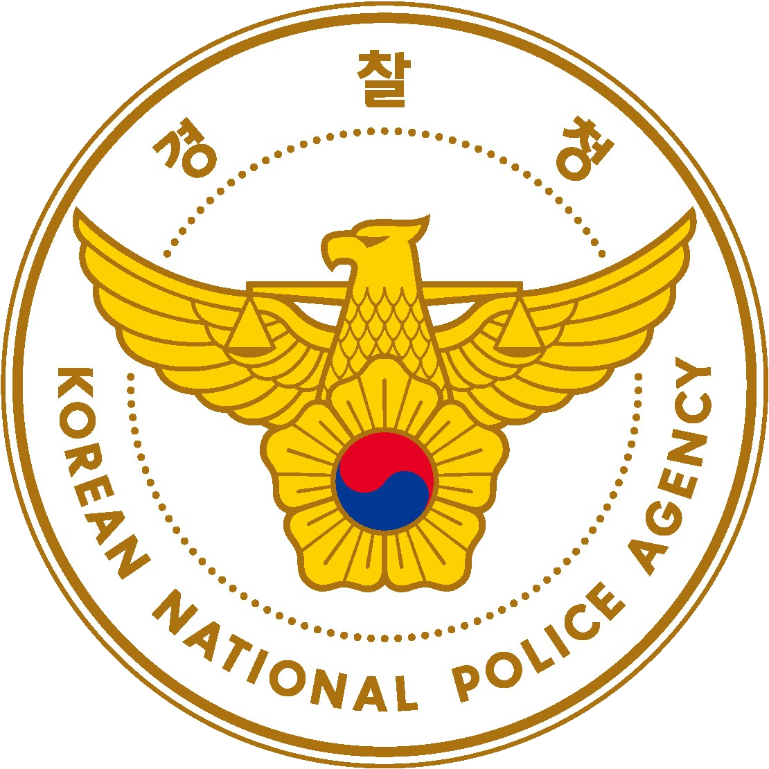 Seal of the Korean National Police Agency